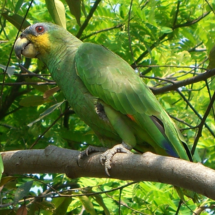 Description: Orange-winged Amazon (Amazona amazonica) the the wild in Columbia.